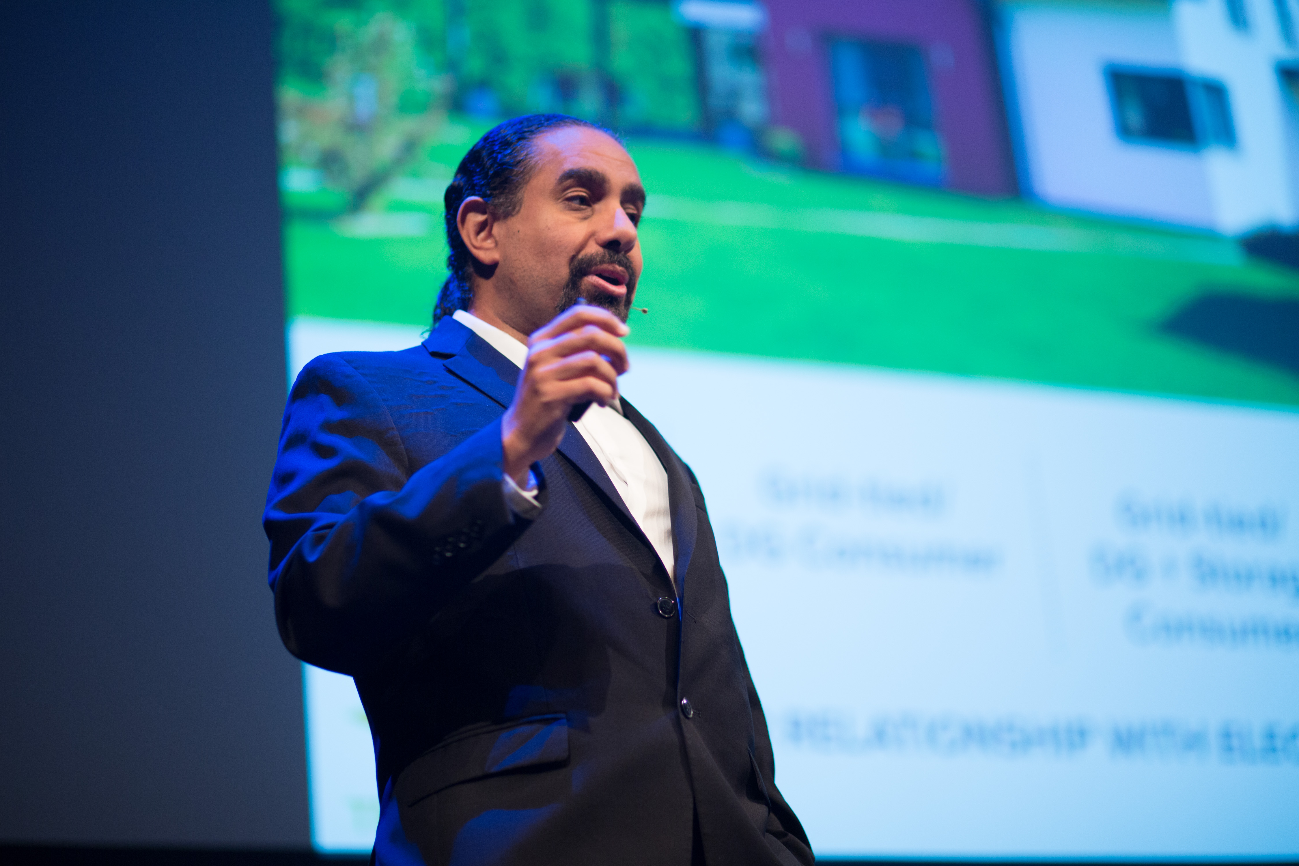 The SingularityU The Netherlands Summit 2016 took place on September 12 & 13 in Amsterdam, The Netherlands. The Netherlands Summit was aimed at bringing awareness about exponential technologies and their impact on business and policy. The theme of the summit was "Reality Check - Fast-Forward into our Future". For more information